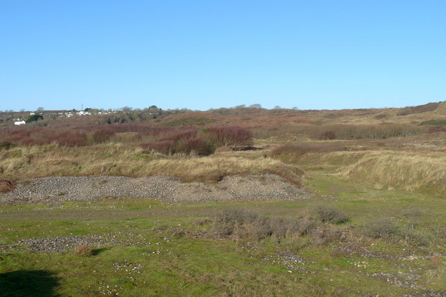 Old workings just to the north of Traeth yr Afon What appear, at least, to be old workings in a low-lying area of duneland at Merthyr Mawr Warren. There are other such sites lying adjacent to the coastal track (shown on Ordnance Survey maps) which runs through this and neighbouring grid squares. All seem to show signs of the work to extract gravel and sand which it is known took place in this area in the past.